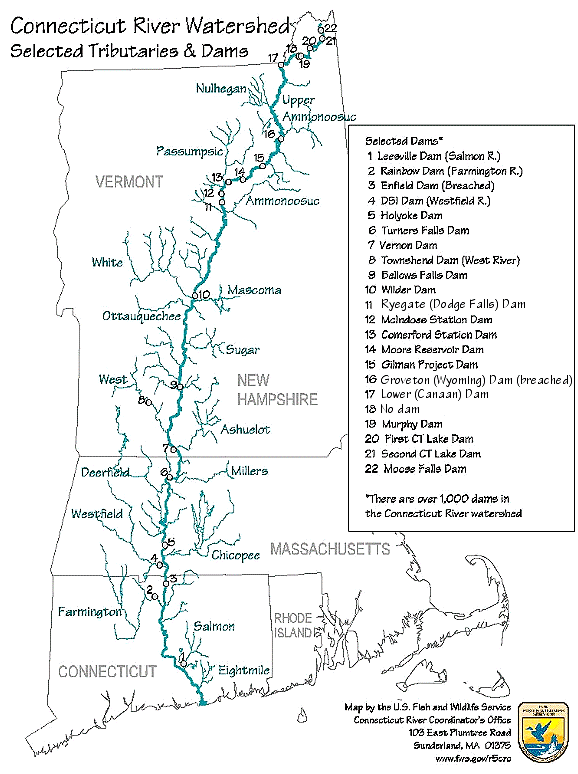 Map of the Connecticut River, New England, USA. This map was prepared by the United States Fish and Wildlife Service, and as a product of the United States Government is in the public domain and not subject to copyright restrictions.